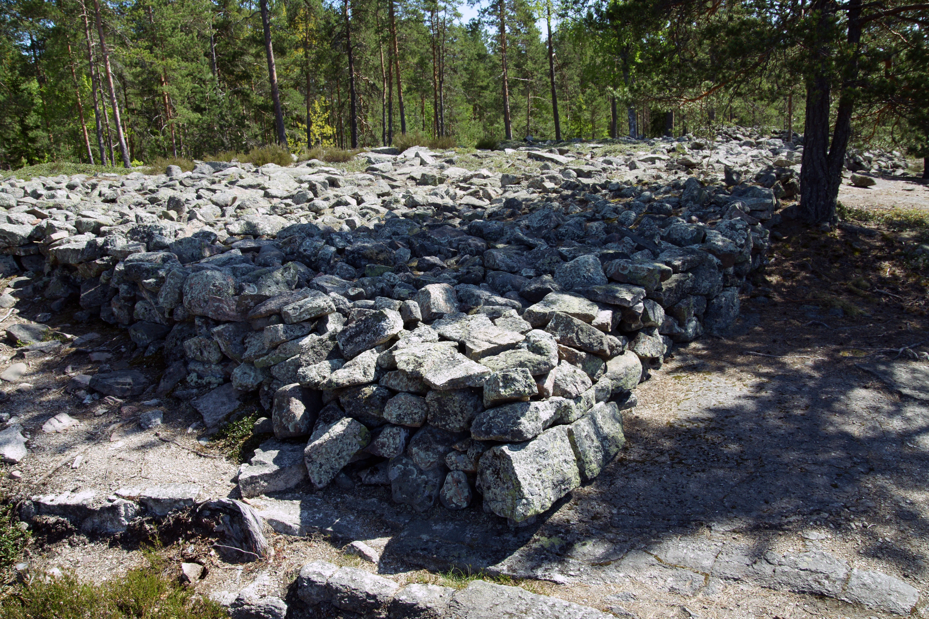 Kirkonlaattia in Sammallahdenmäki bronze age burial site in Lappi, Finland.